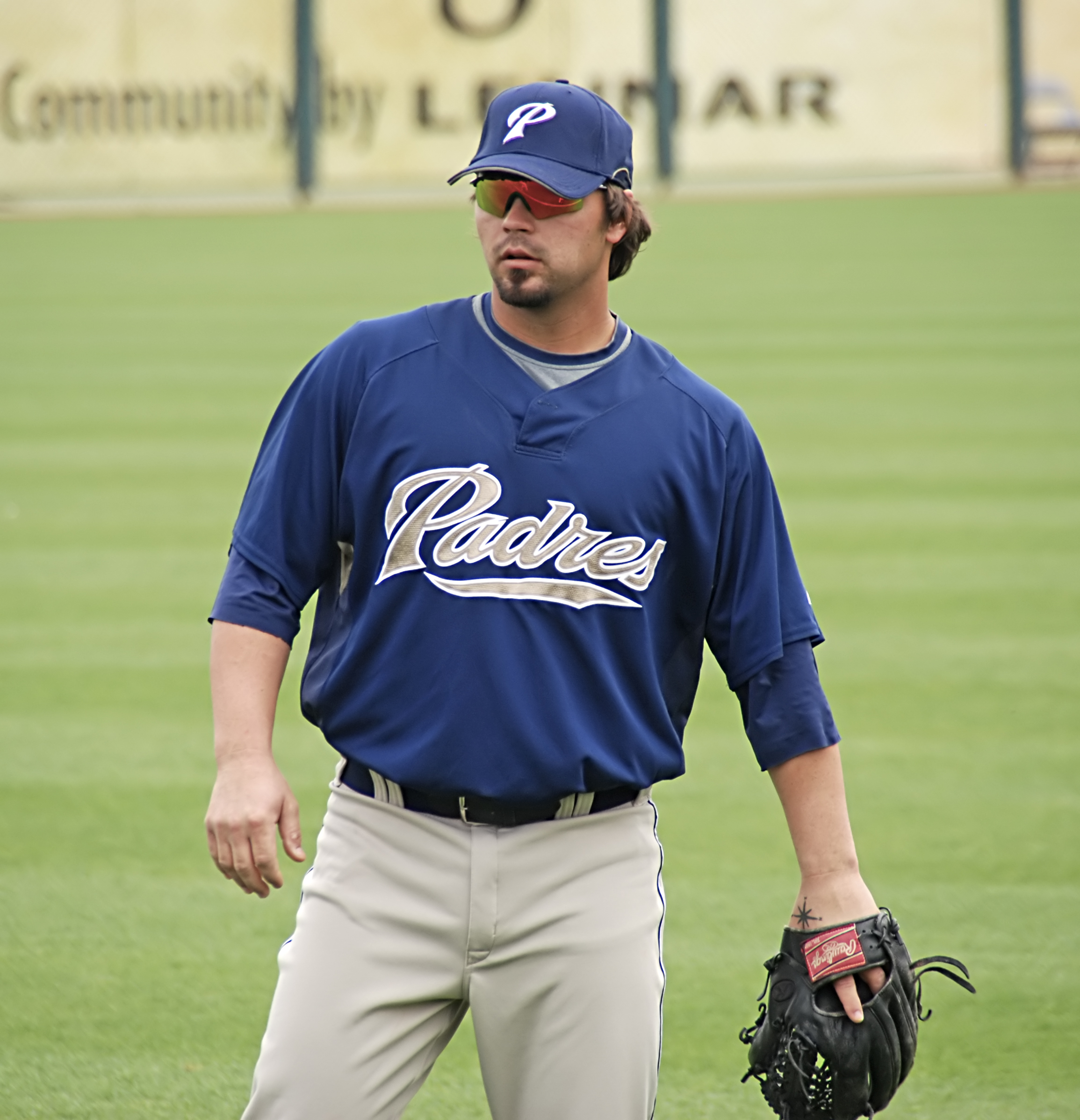 Travis Denker player for the San Diego Padres spring training baseball